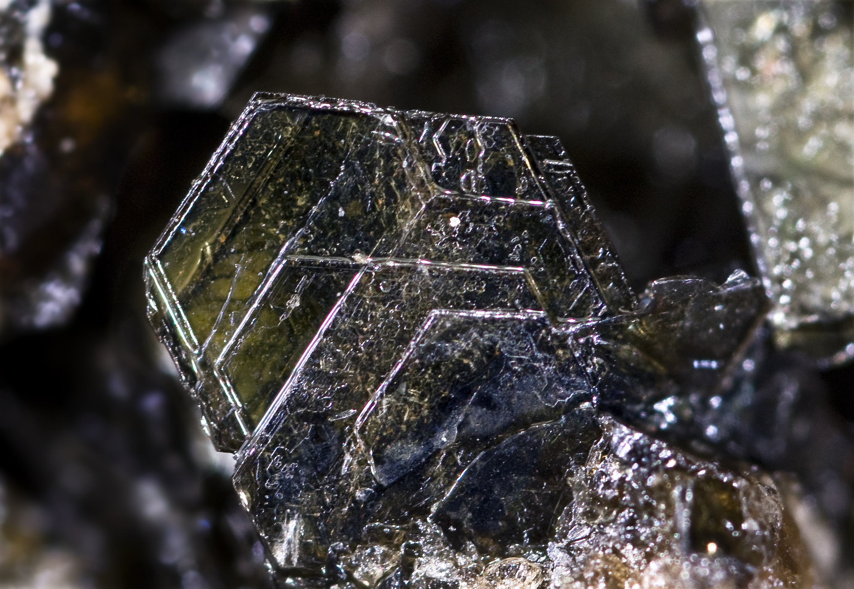 Biotite (meroxene) Locolity : San Vito quarry, San Vito, Ercolano, Monte Somma, Somma-Vesuvius Complex, Naples Province, Campania, Italy. Topotype deposit. Size : (XX5mm)